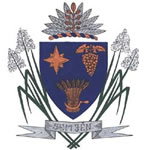 Coat of arms of Semjén, Hungary